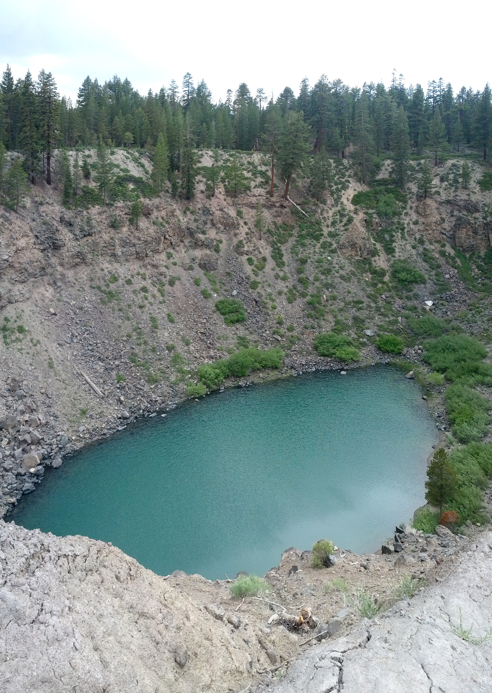 The southernmost of the Inyo craters, one of the Inyo Crater Lakes, from the forest service hiking path. Pano assembled from three shots on Galaxy Nexus phone.